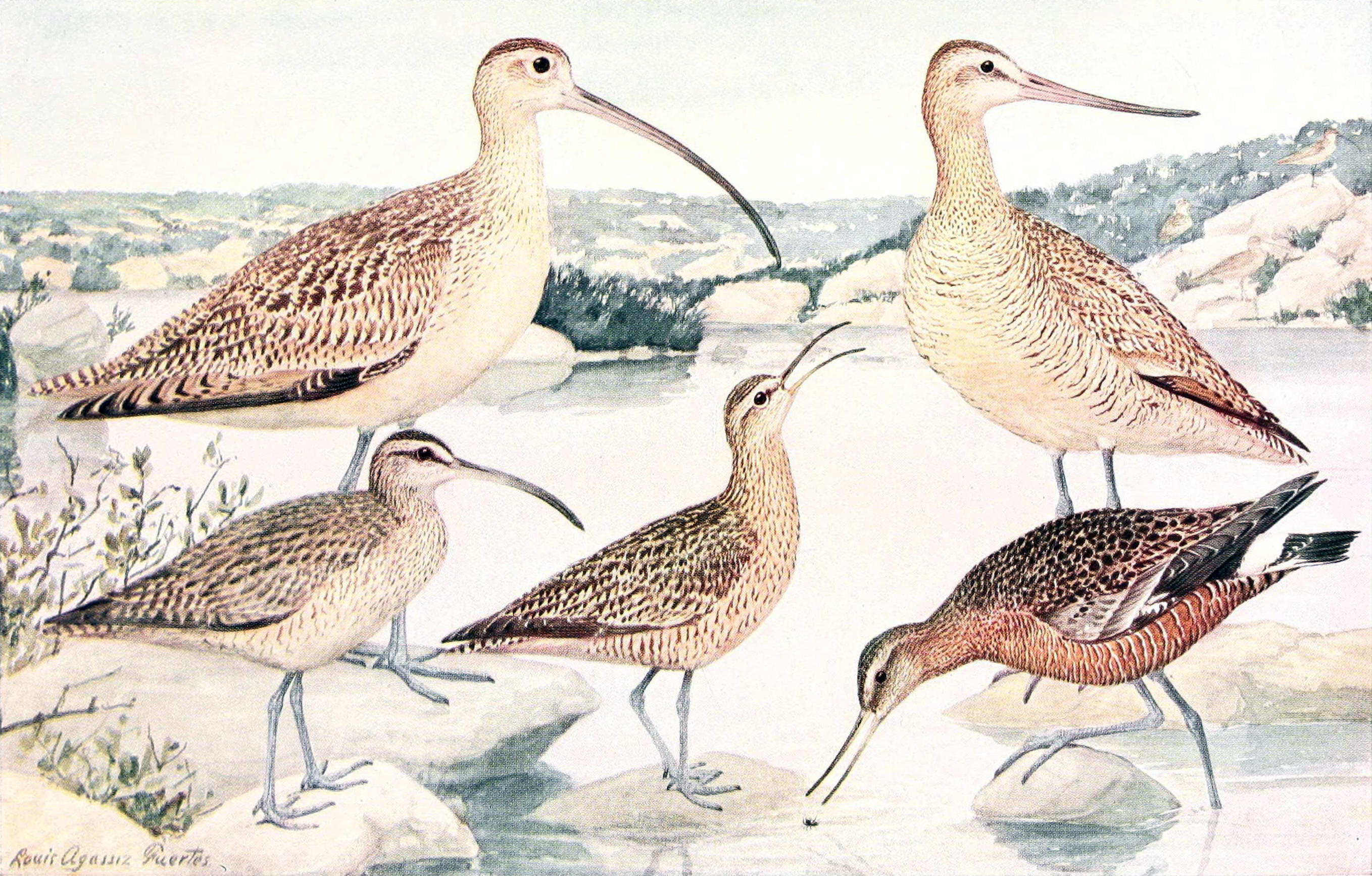 1 Long-billed Curlew 2 Hudsonian Curlew 3 Eskimo Curlew (now considered extinct) 4 Marbled Godwit 5 Hudsonian Godwit